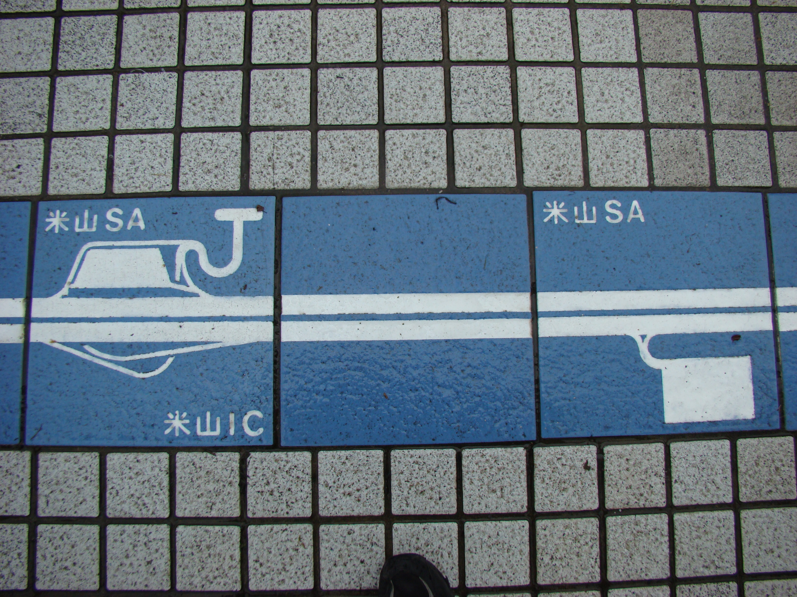 The tile which designed a shape of the Yoneyama Service Area and Yoneyama Interchange（Hokuriku Expressway）（There is this tile in Hokuriku Expressway Nadachi-Tanihama Service Area.）. Place - Chayagahara,Joetsu City,Niigata Prefecture,Japan Date - August 9, 2009 Format - JPEG, 3264x2448pixel, 24bit colors. Photographer - NALA Wiki (talk)